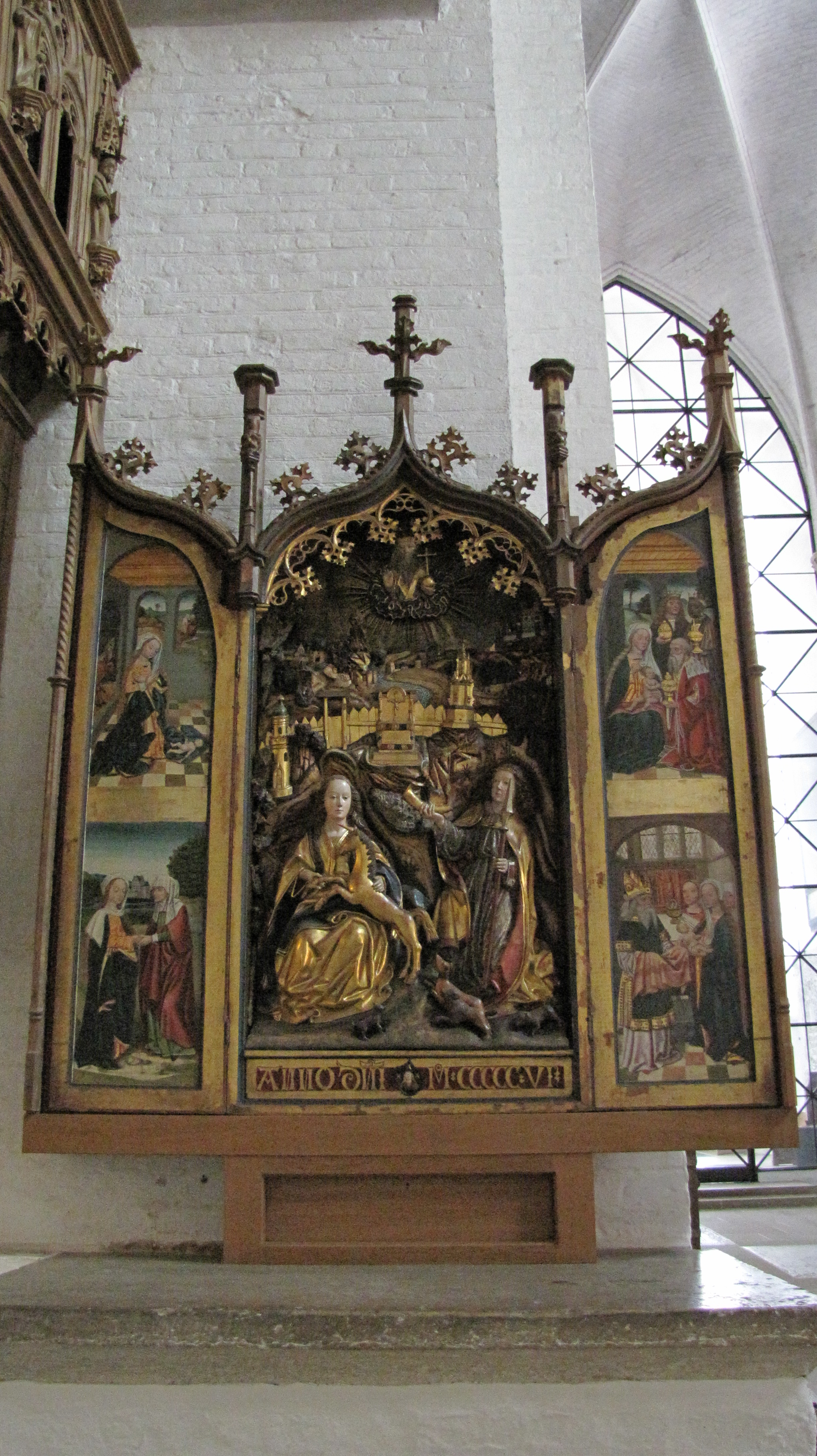 Marienaltar in Lübeck cathedral, showing the mystical hunting of the unicorn